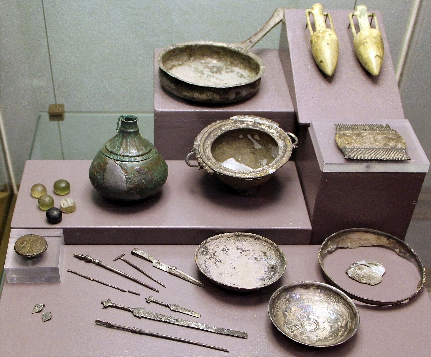 Etruscan art in the Museo archeologico di Firenze